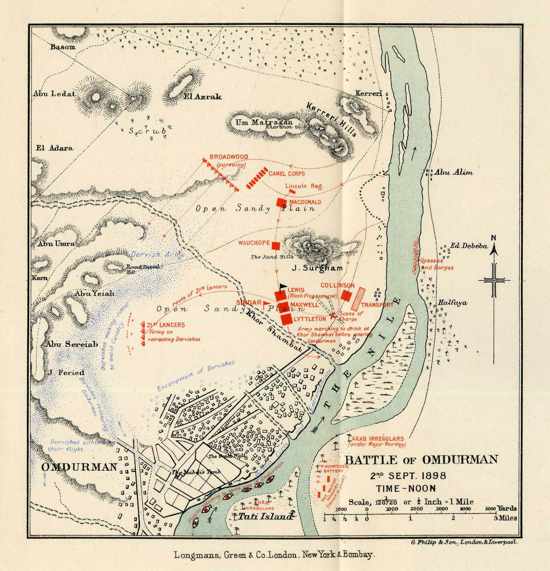 The Battle of Omdurman 2nd September, Noon